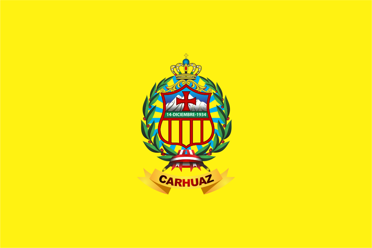 District of Carhuaz - carhuaz province - Region Ancash